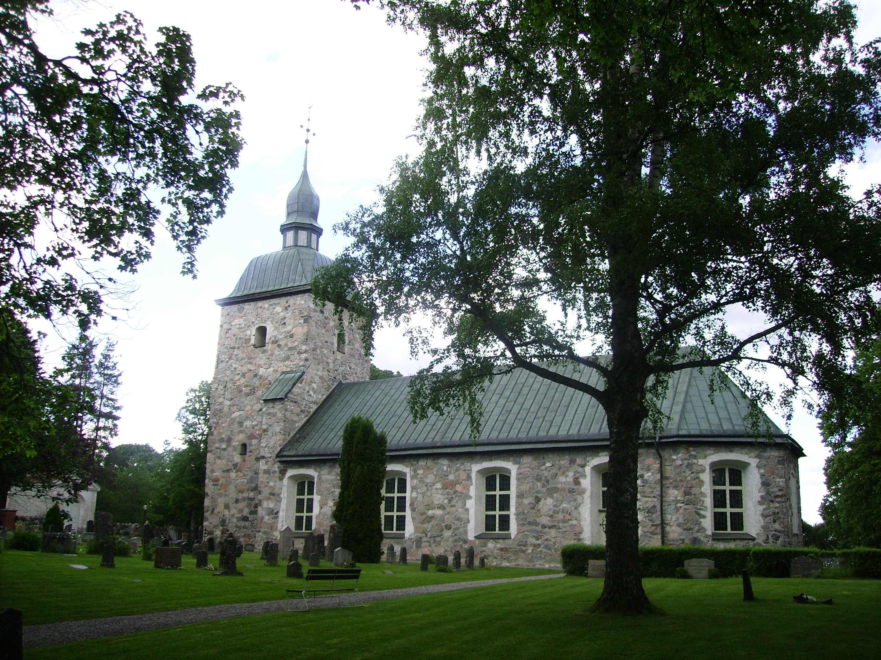 Picture of Gåsinge kyrka, Strängnäs stift